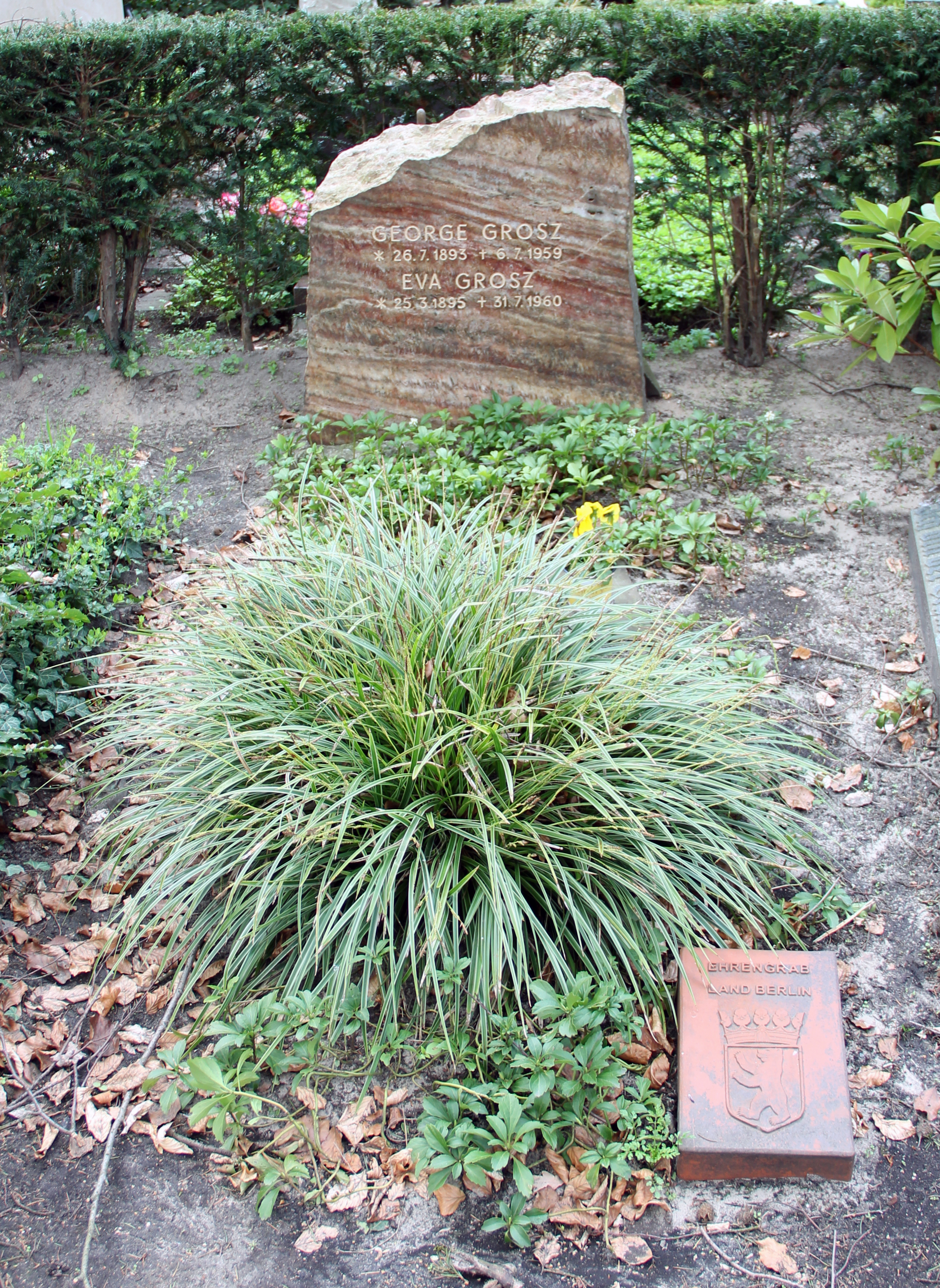 Grave of honor, George Grosz, Trakehner Allee 1, Berlin-Westend, Germany